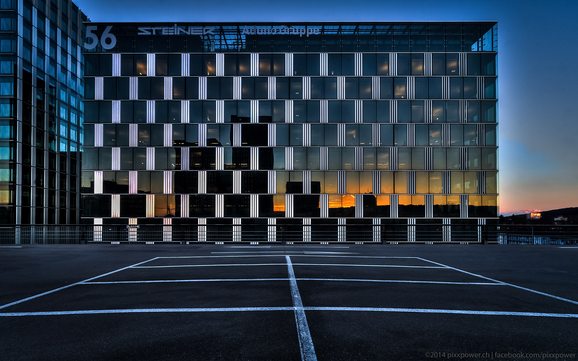 Headquarter of the Aduno Group in Zürich